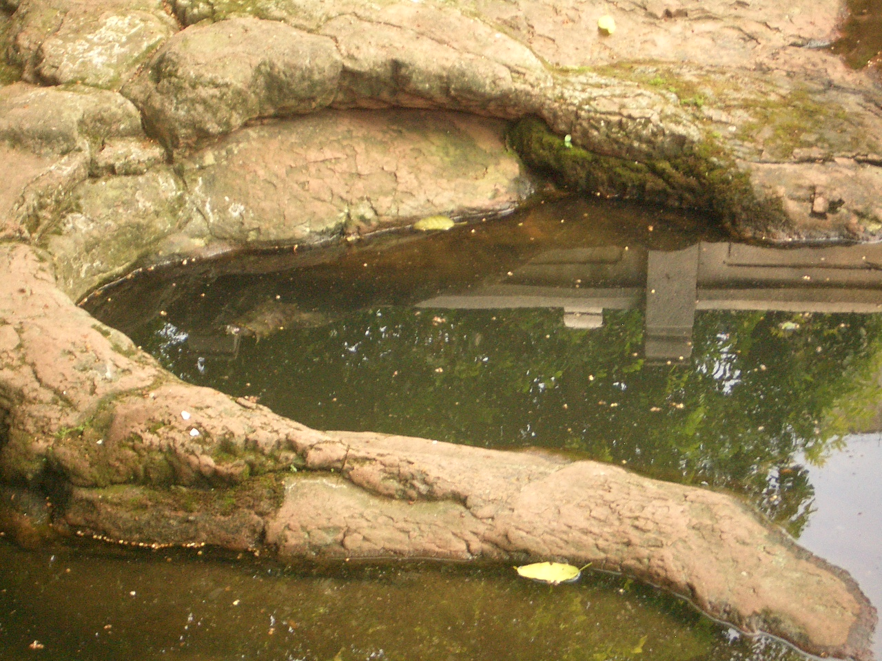 A little pond, described as an Immortal's footprint, in the yard of the Temple of the Five Immortals (Guangzhou). Plenty of turtles live in the pond, enjoying the relative safety of the Taoist temple.